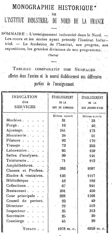 Lille (France) - Ecole des Arts Industriels et des Mines (1854-1872) Institut Industriel du Nord de la France (1872-1875 rue du Lombard Lille, puis 16 rue Jeanne d'Arc Lille 1875-19868) -- Comparison of surfaces between the old building located rue du Lomabrd and the new building located rue Jeanne d'Arc at Lille, for the purpose of engineering education -- Source Henri Bourdon, - Monographie historique de l'Institut industriel du Nord de la France - 1894 (Ecole centrale de Lille) Source Gallica